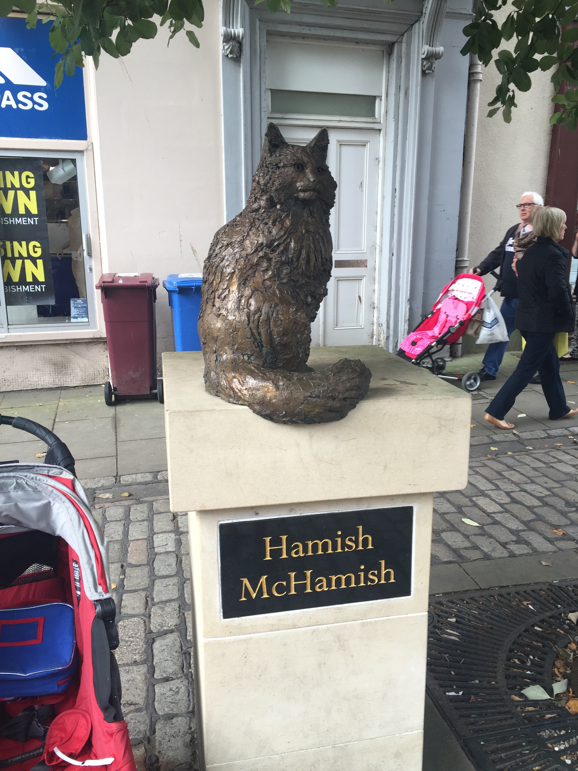 Hamish McHamish statue in St Andrews Photo Cred: Kat Counts